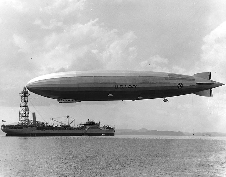 USS Los Angeles (ZR-3) moored to USS Patoka, off Panama during the winter of 1931.